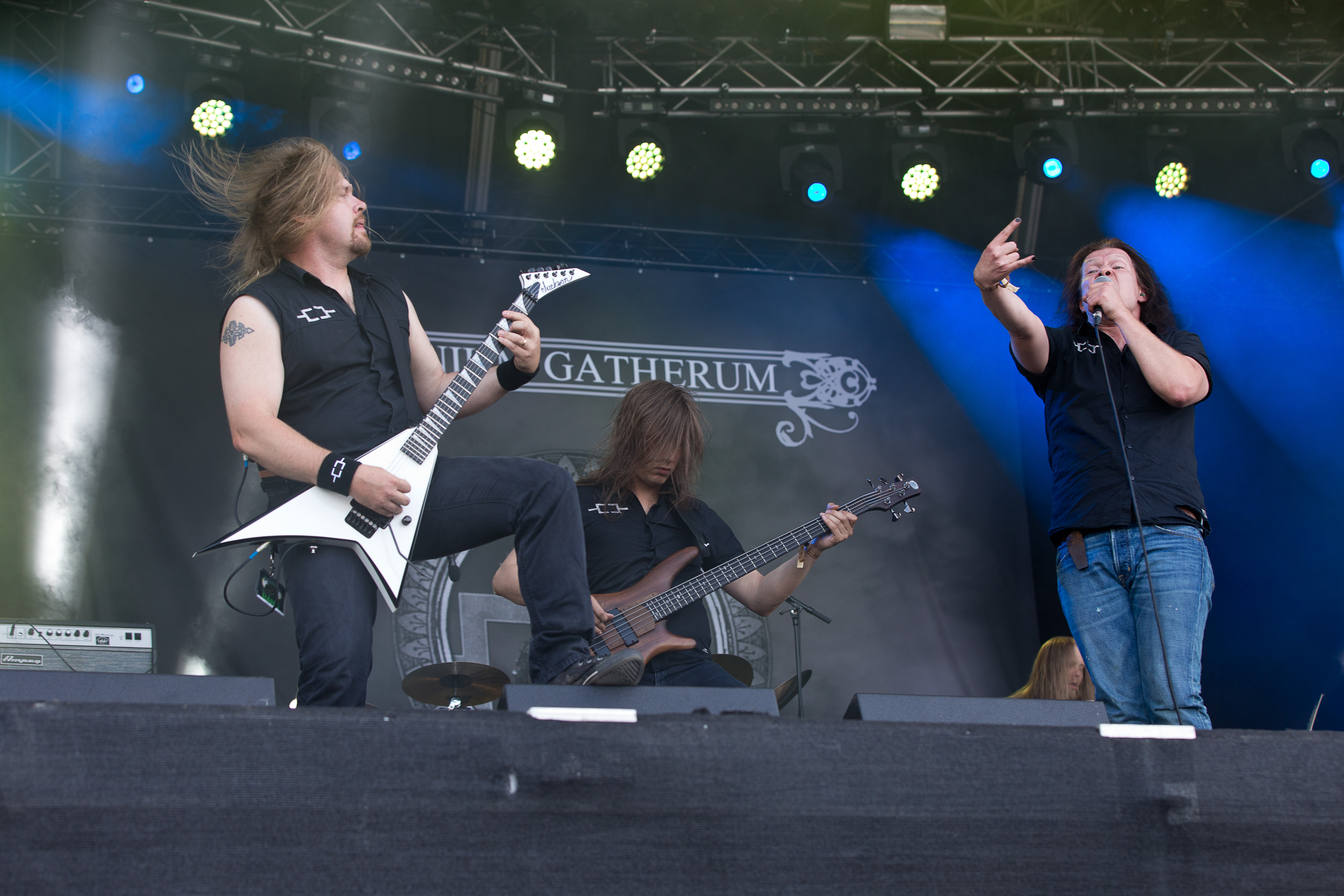 The Finnish melodic death metal band Omnium Gatherum at the Rockharz Open Air 2016 in Ballenstedt/Germany.